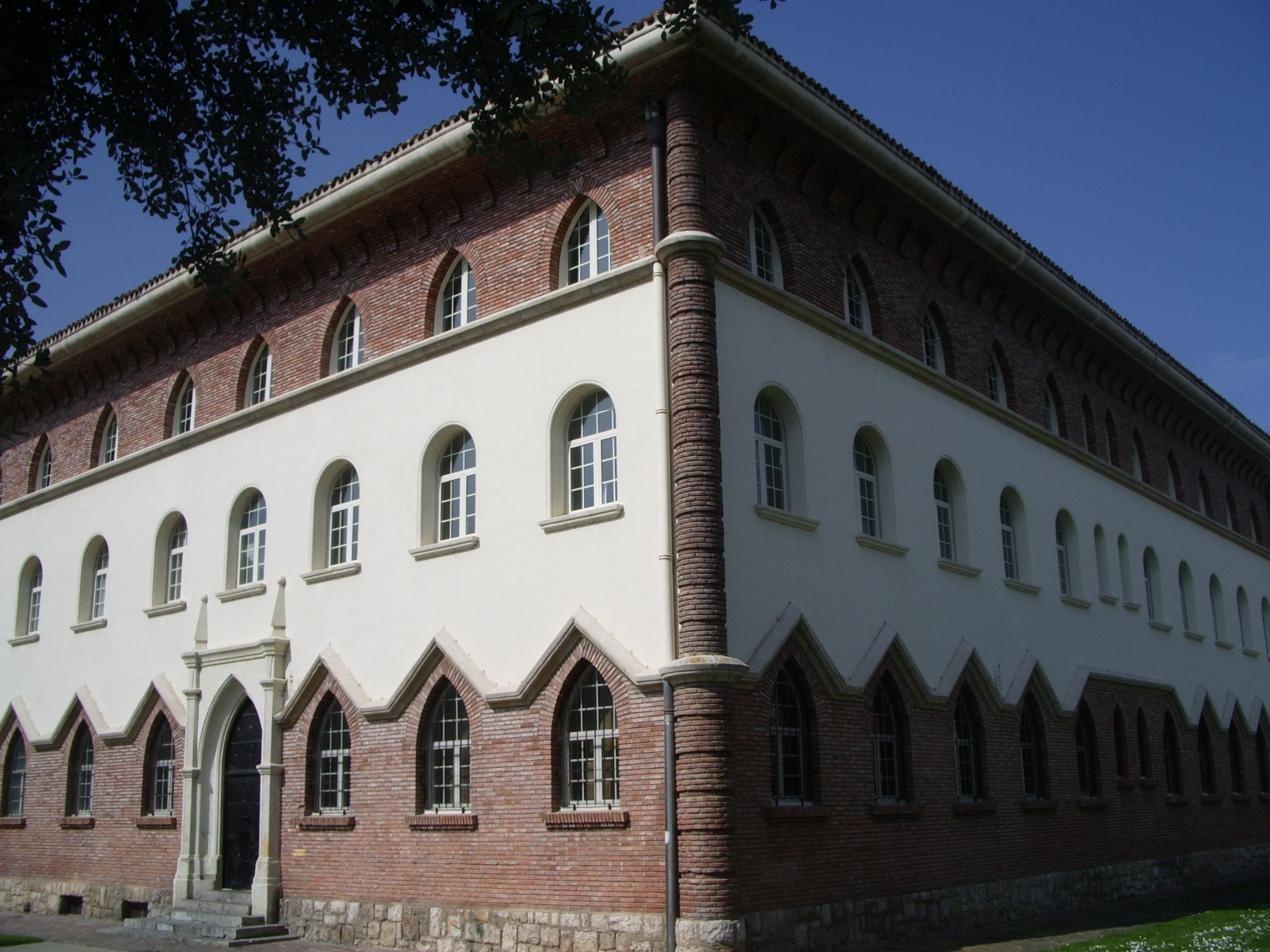 Music School in Miranda de Ebro (Spain).